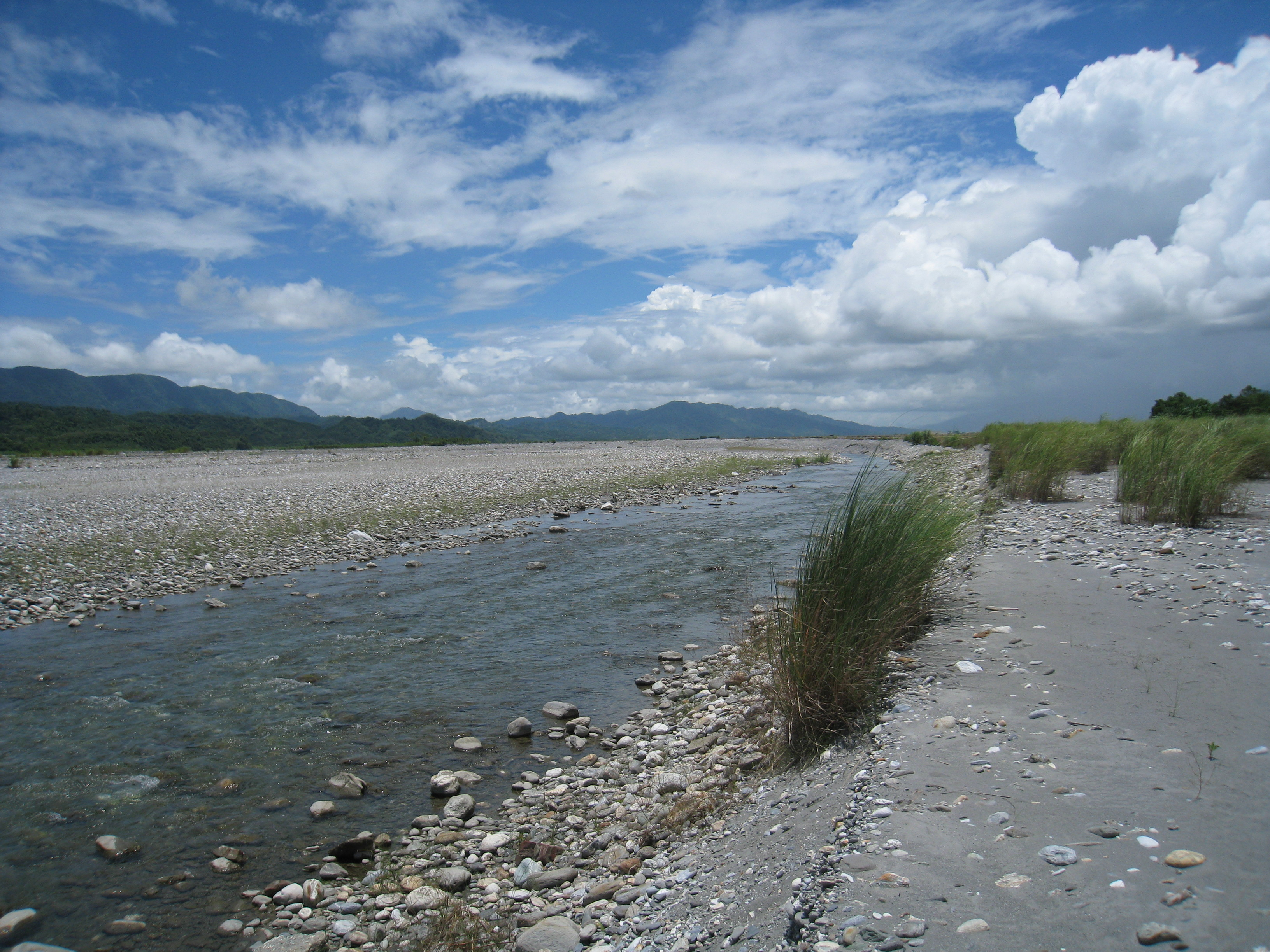 Hualien River 1 , Hualien.